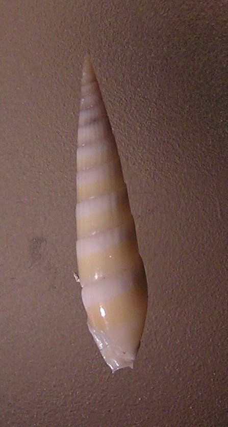 Hastula alboflava Bratcher, 1988 ,an auger snail from the family Terebridae; Philippines